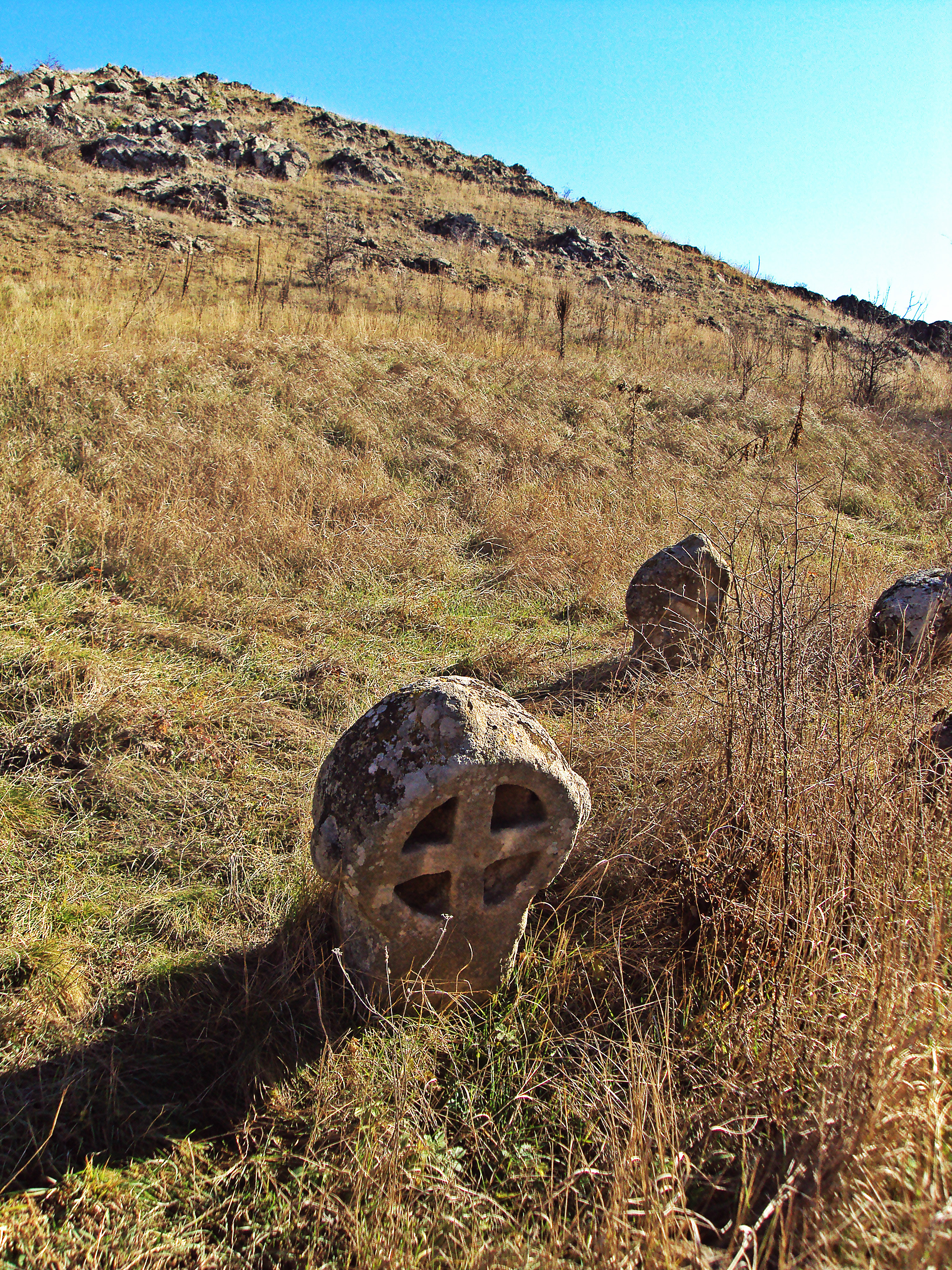 Old Cross